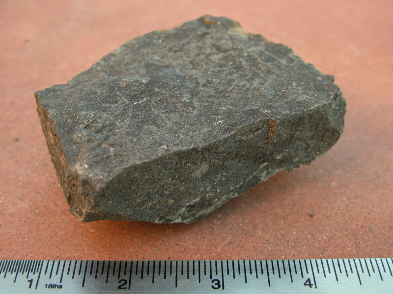 Photograph of a sample of Lamproite with ruler for scale.